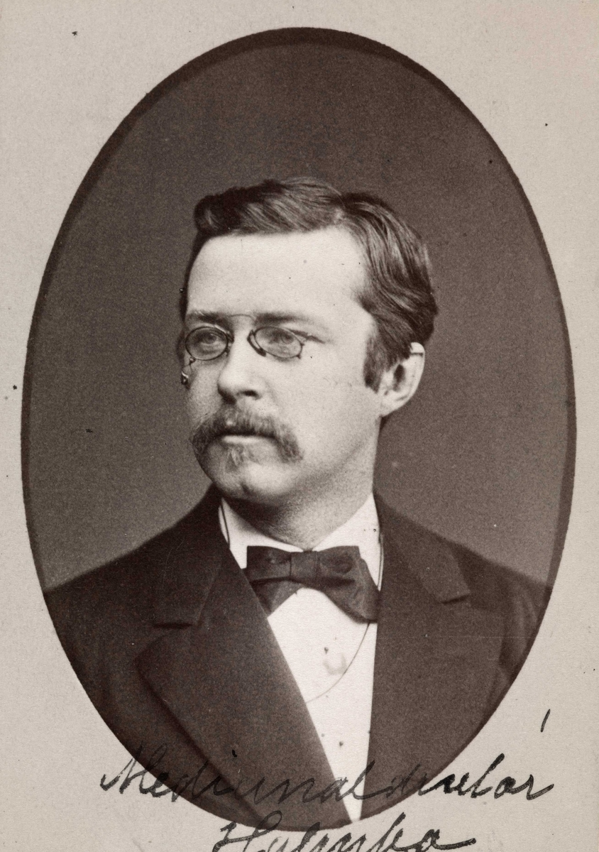 Norwegian physicial and health executive Michael Holmboe